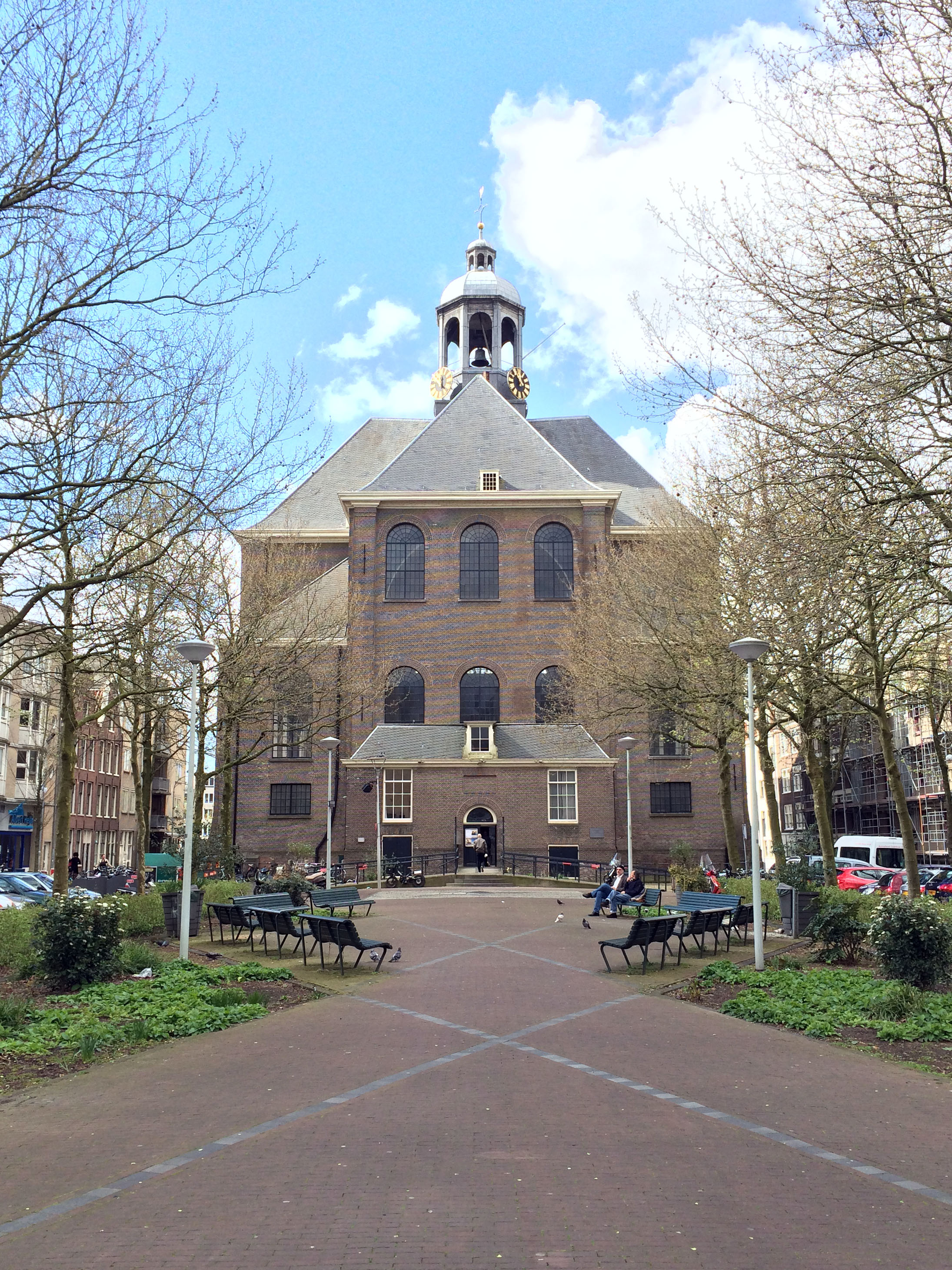 View of the Oosterk in Amsterdam, view on the northern side, as seen from the Marie Altelaarplein.